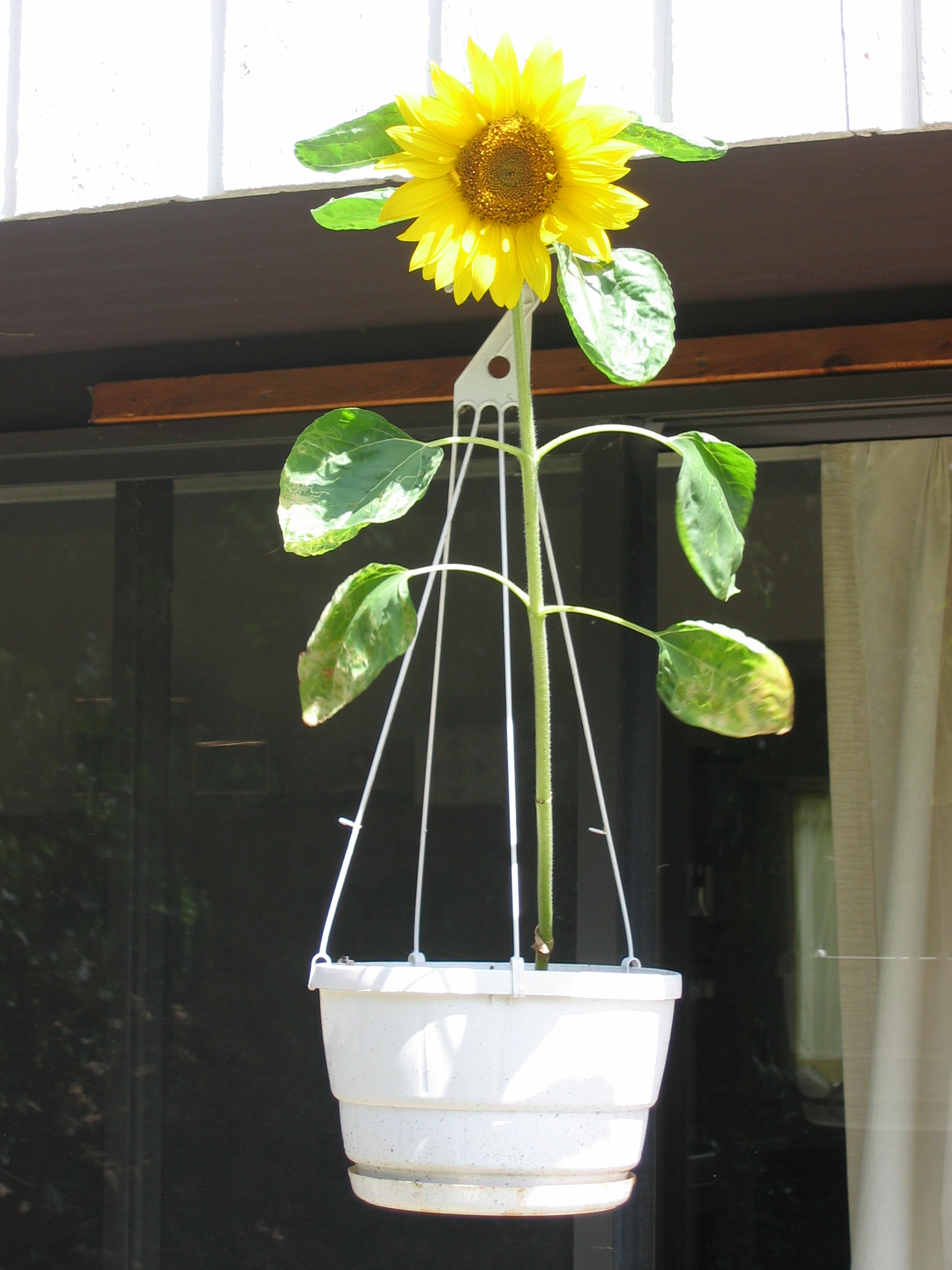 A large sunflower growing in a hanging basket.